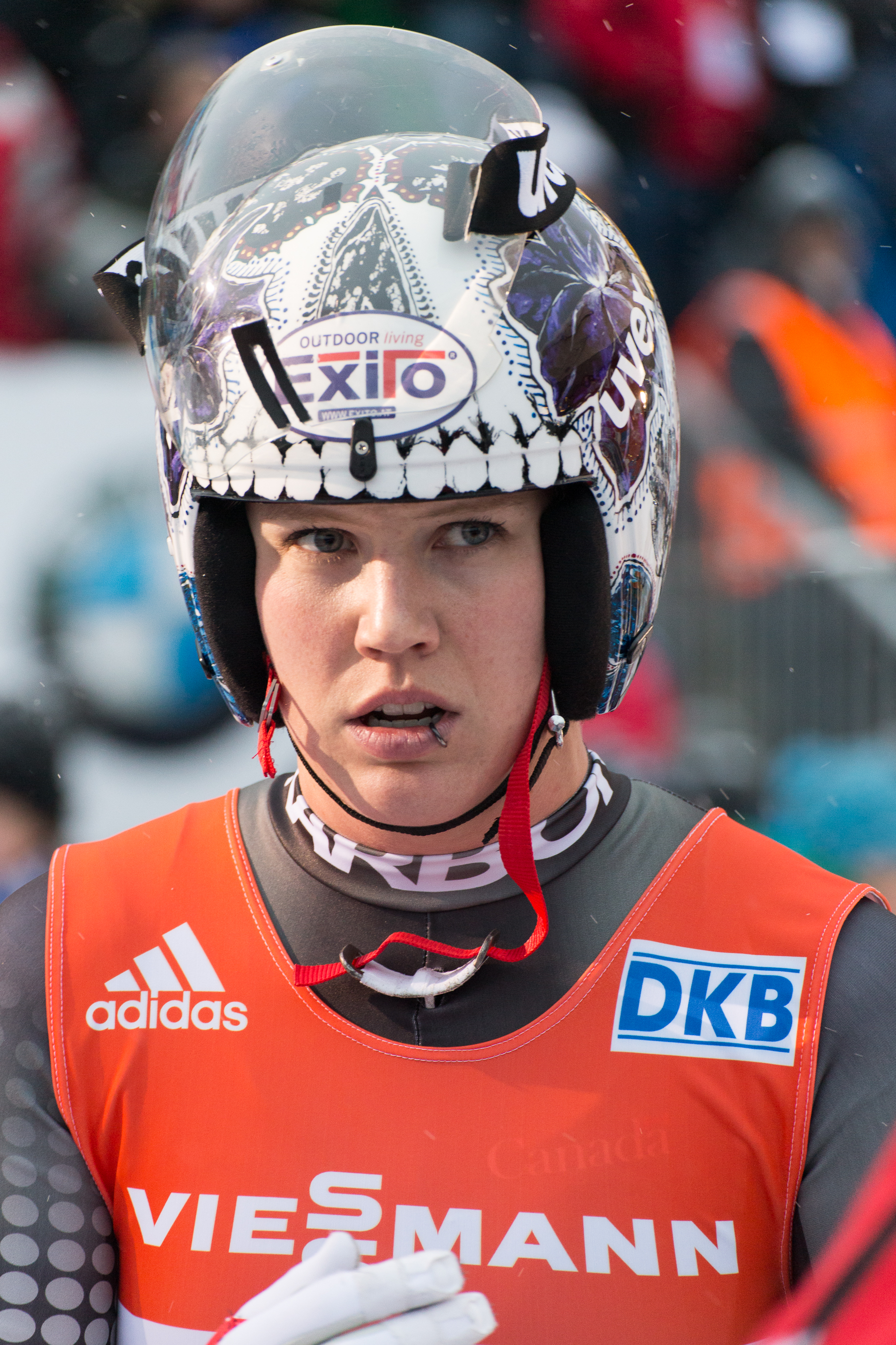 Luge world cup Oberhof 2016-01-16